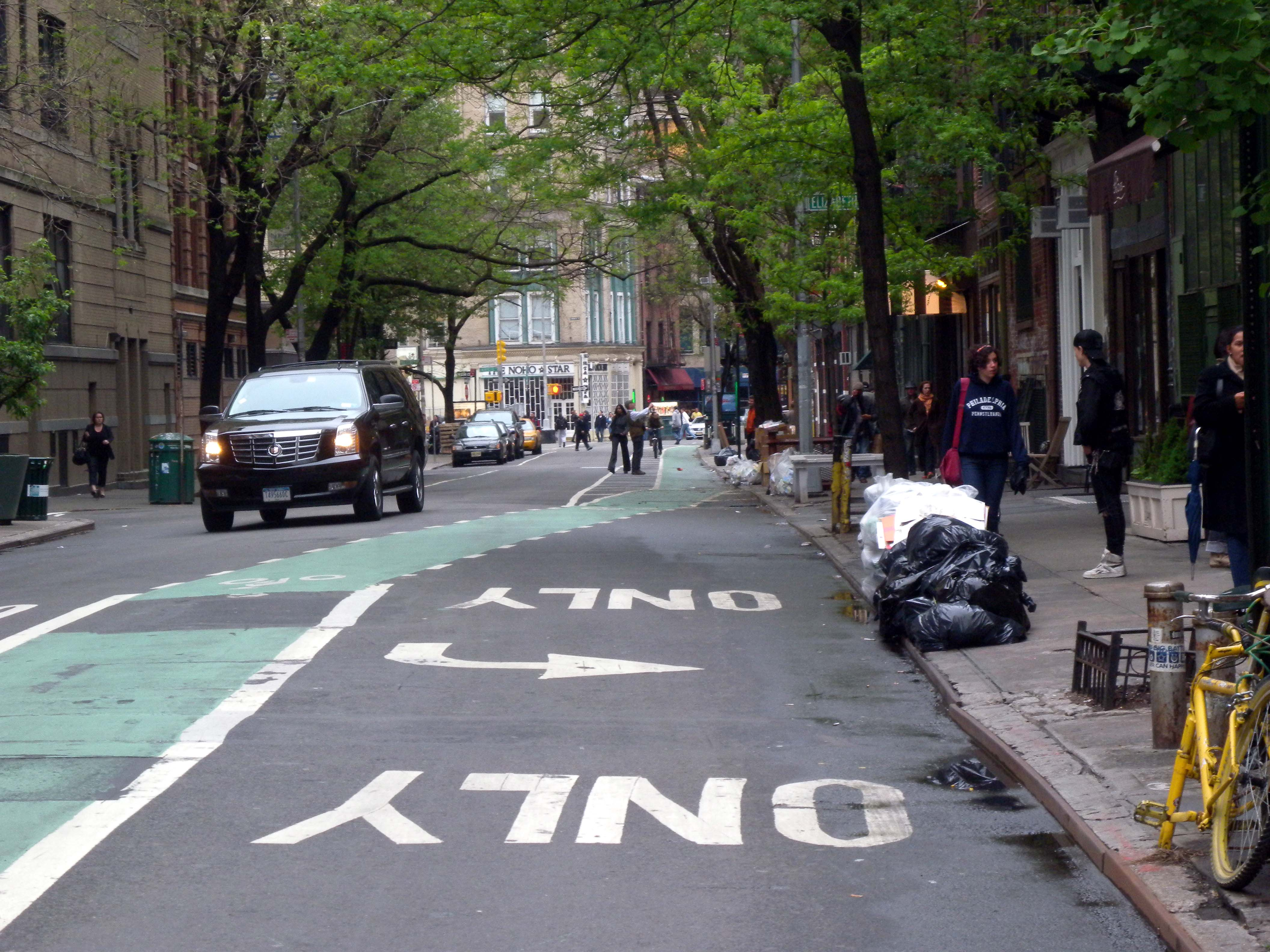 Looking west on Bleecker Street from Bowery on a cloudy evening before dusk.